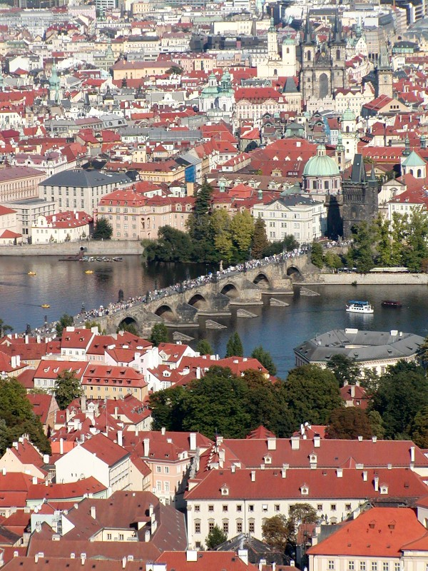 View of Charles Bridge in Prague from Petřínská rozhledna tower